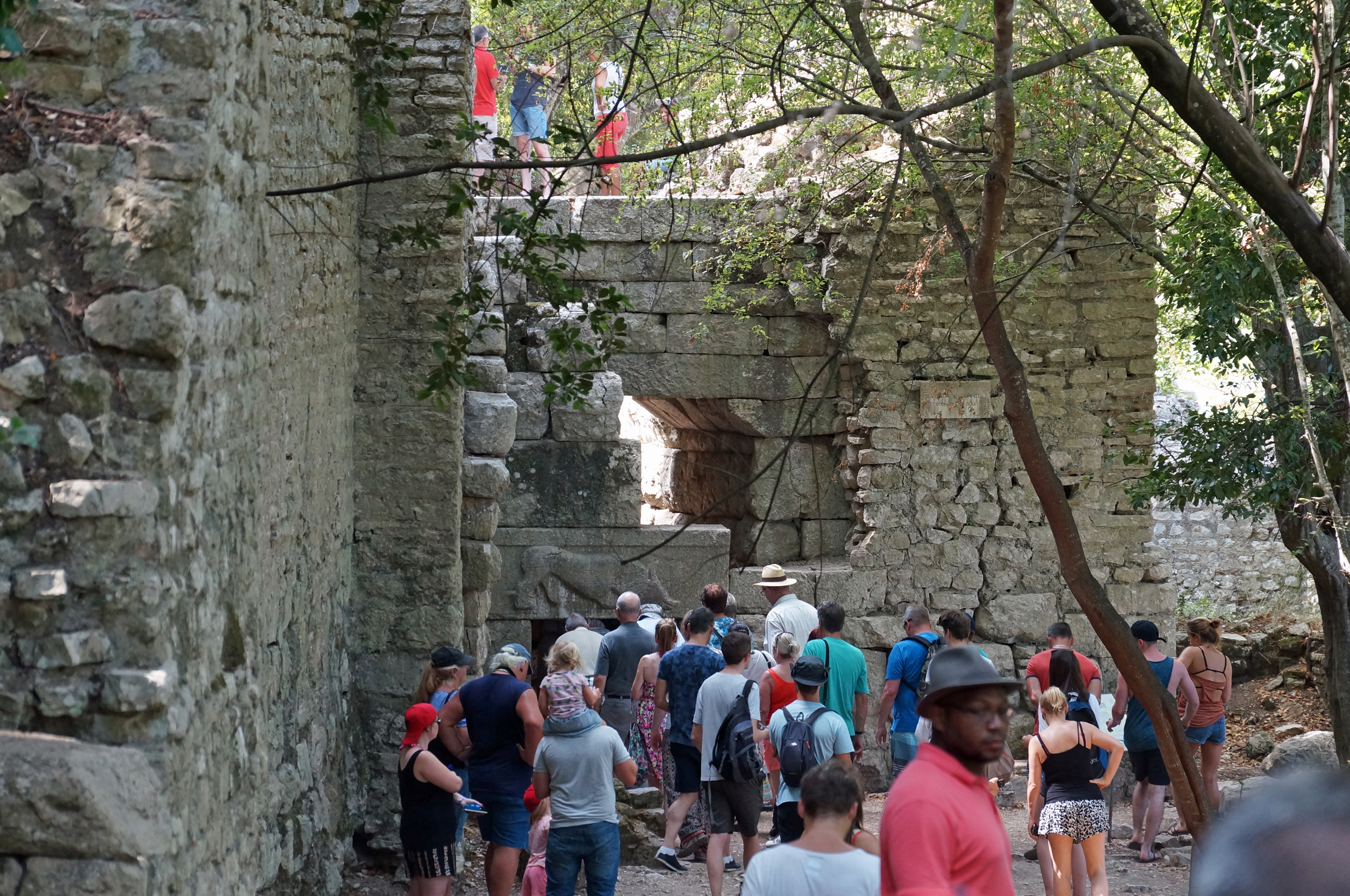 Tourists in Butrint, ancient city in Albania